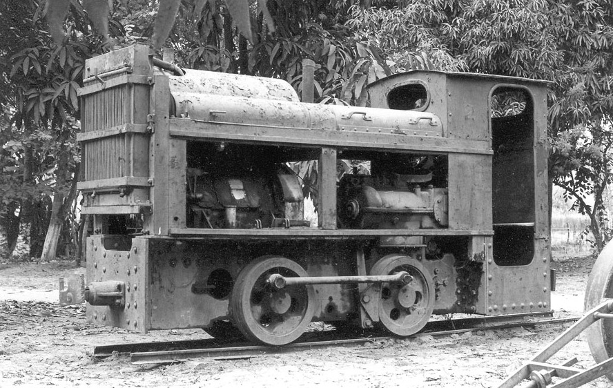 Ruhrthaler diesel-mechanical shunter no. 963 of 1929 (0-4-0DM)Location: Catumbela Sugar Estate, Angola